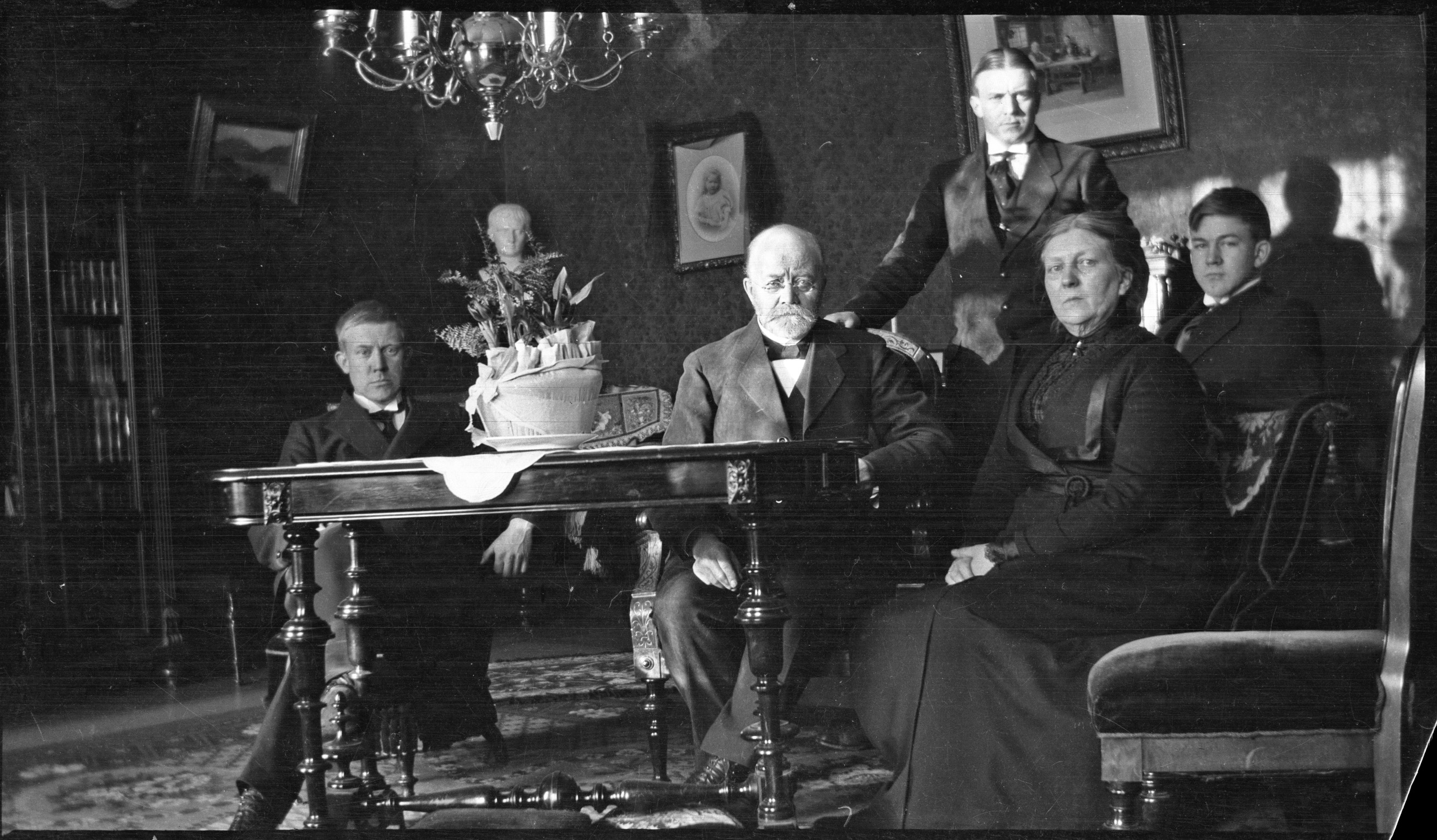 The Quisling family c. 1915. From left to right: Vidkun, father Jon, brother Jørgen (standing in the back), mother Anna, and brother Arne.